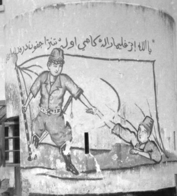 KUCHING FORCE. JAPANESE PROPAGANDA. A LARGE SIGN PAINTED ON THE SIDE OF A PUBLIC BUILDING IN KUCHING.